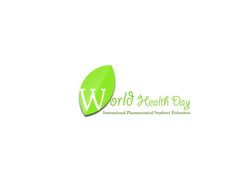 IPSF Health day Campaign Logo